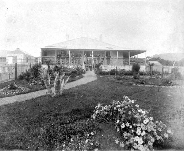 The estate of the family Bernacchi on Maria Island, Tasmania